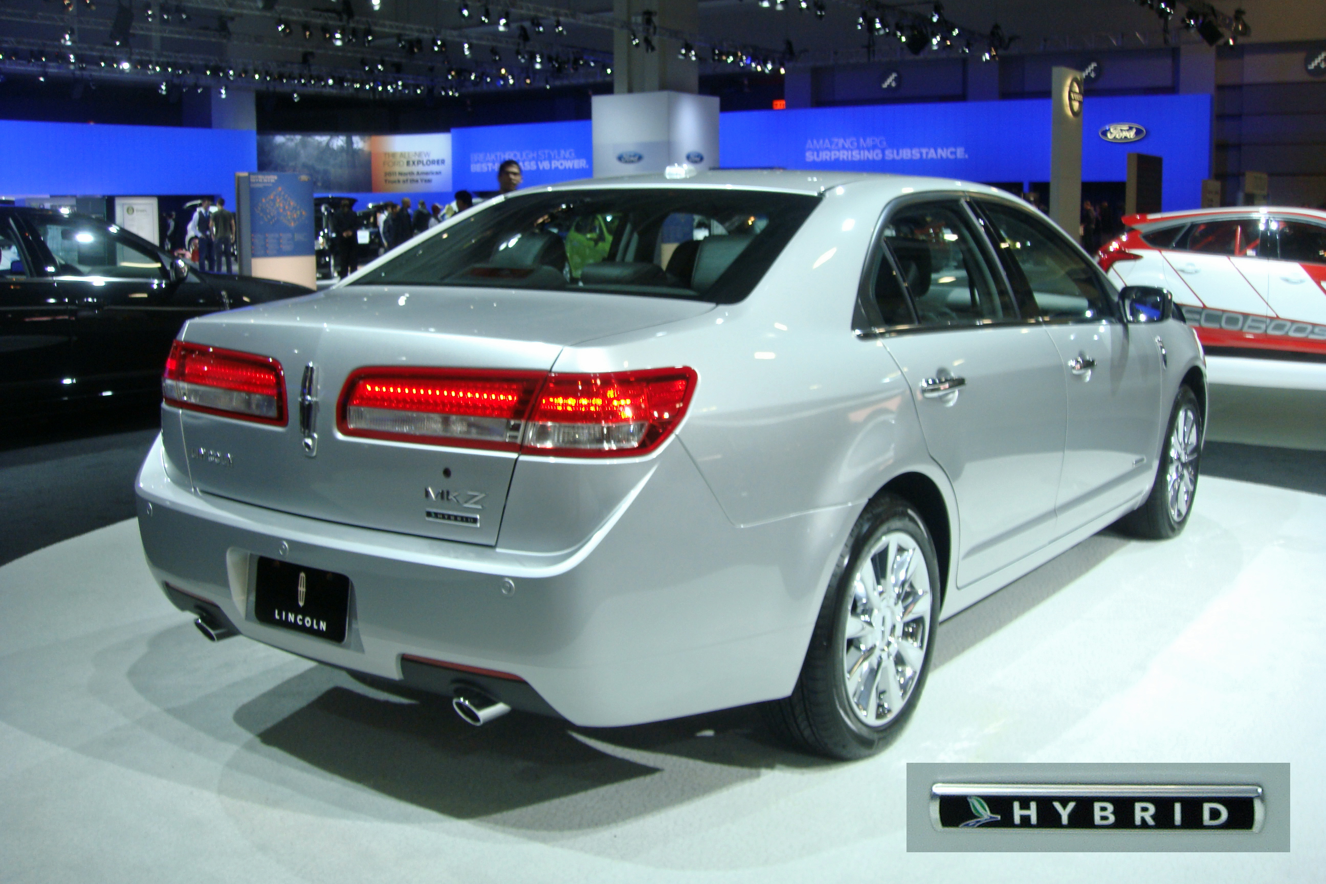 Lincoln MKZ Hybrid exhibited at the 2011 Washington D.C. Auto Show, inset shows hybrid badging